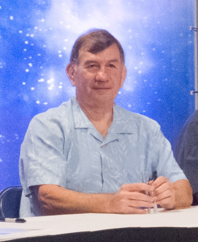 Retired professional wrestler Gerald Brisco in 2012